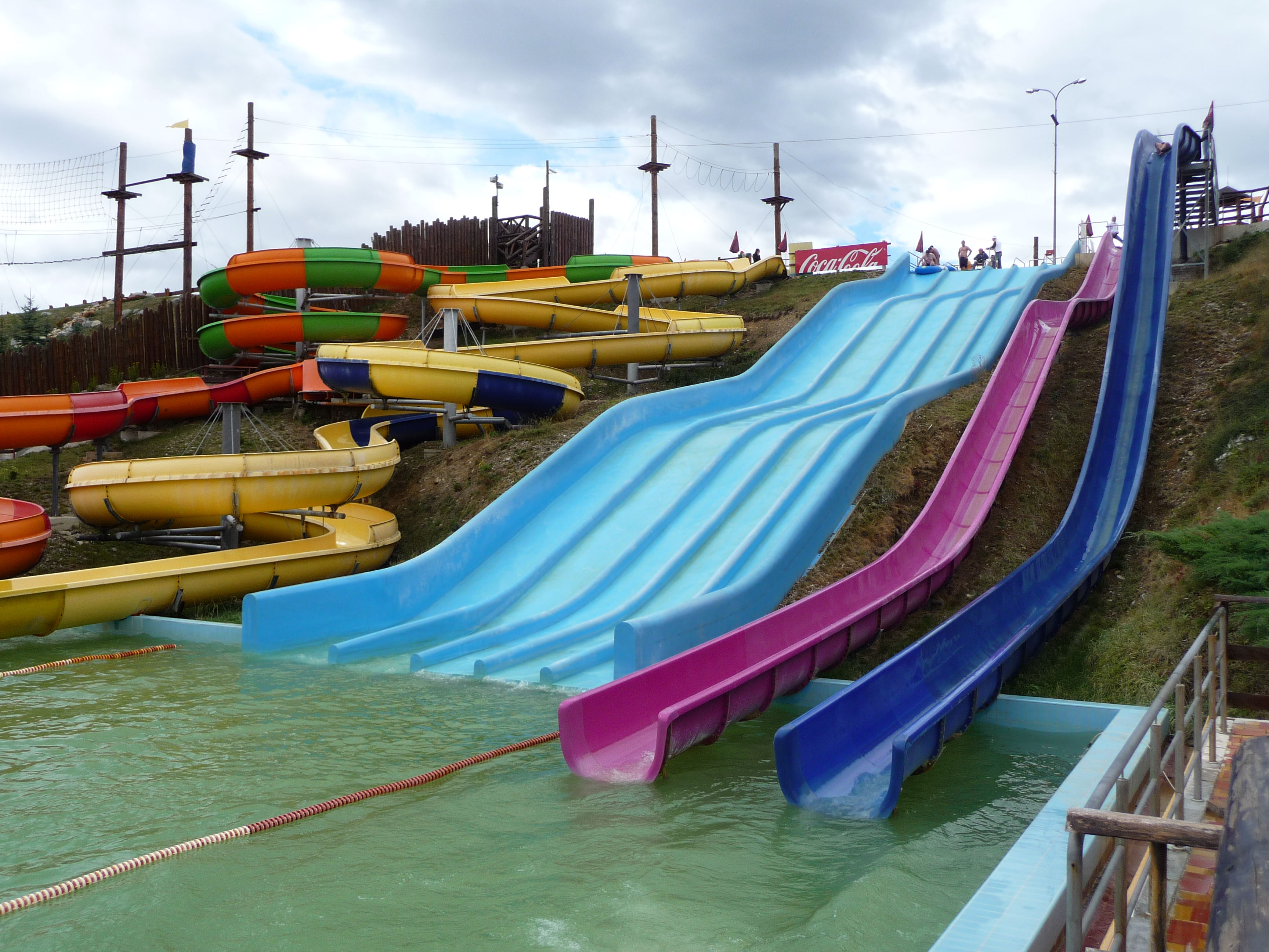 Water park Tatralandia in Slovakia